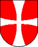 Blazon of Münsterlingen, Canton of Thurgau, SwitzerlandEsperanto: Blazono de Münsterlingen, Kantono Turgovio, Svislando